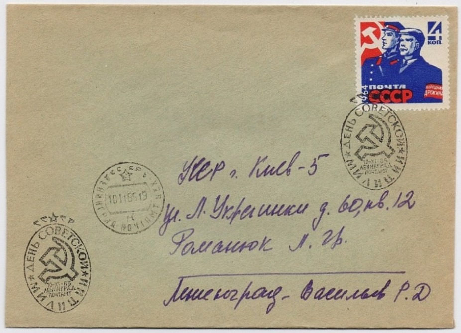 USSR 1965-11-10 cover sent from Leningrad to Kiev. Special postmark of the Soviet Police (Militsia) Day. Catalogue: Mi. 2894.